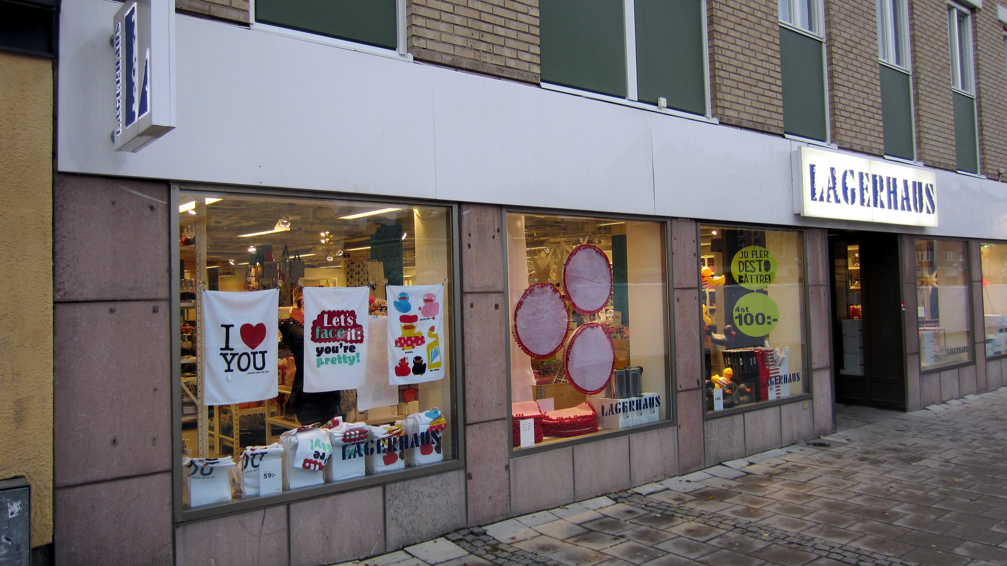 Swedish shop Lagerhaus in Umeå.